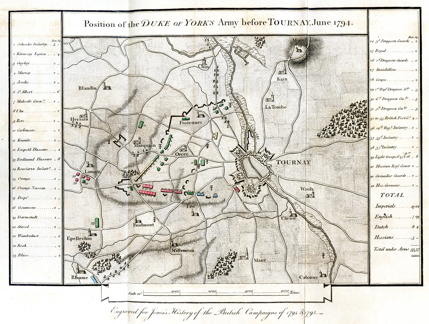 Position of the Duke of York's Army before Tournay, June 1794. From An Historical Journal of the British Campaign on the Continent in the year 1794; with the British Retreat through Holland, in the Year 1795 by Captain L. T. Jones